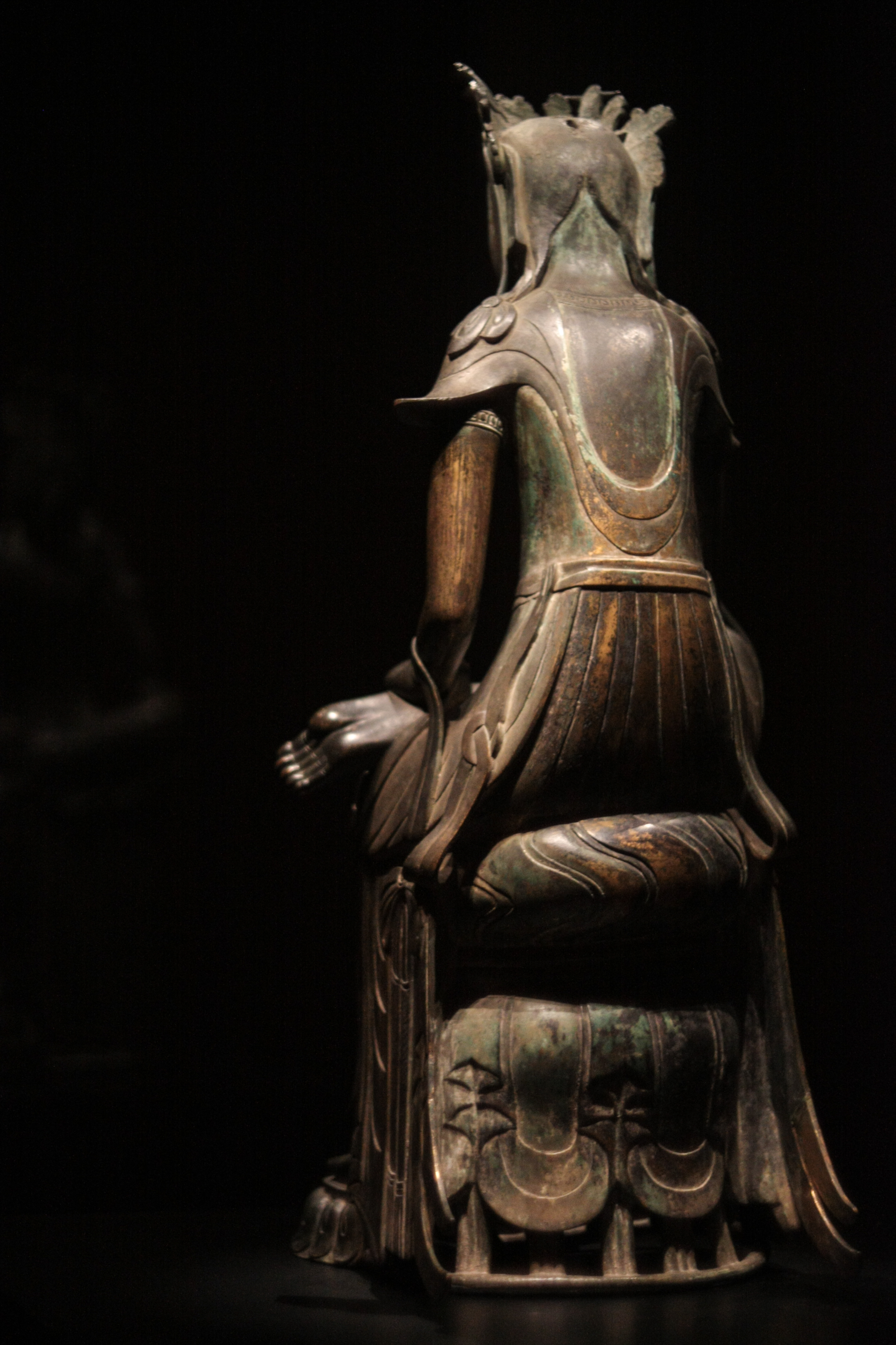 Gilt-bronze Maitreya in Meditation (National Treasure No. 78)